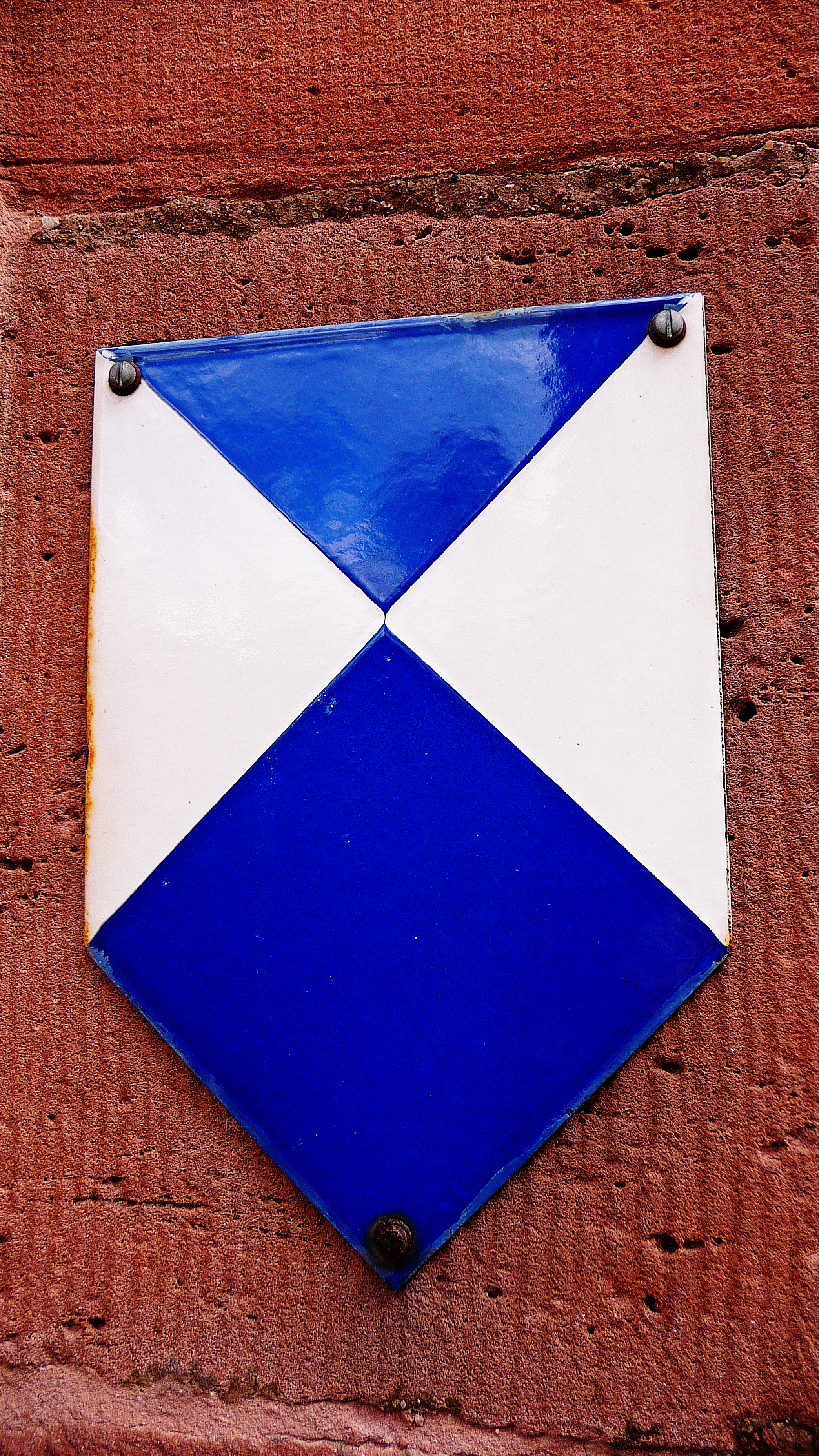 Cultural heritage plate at the wall of a building in Amorbach (Bavaria).